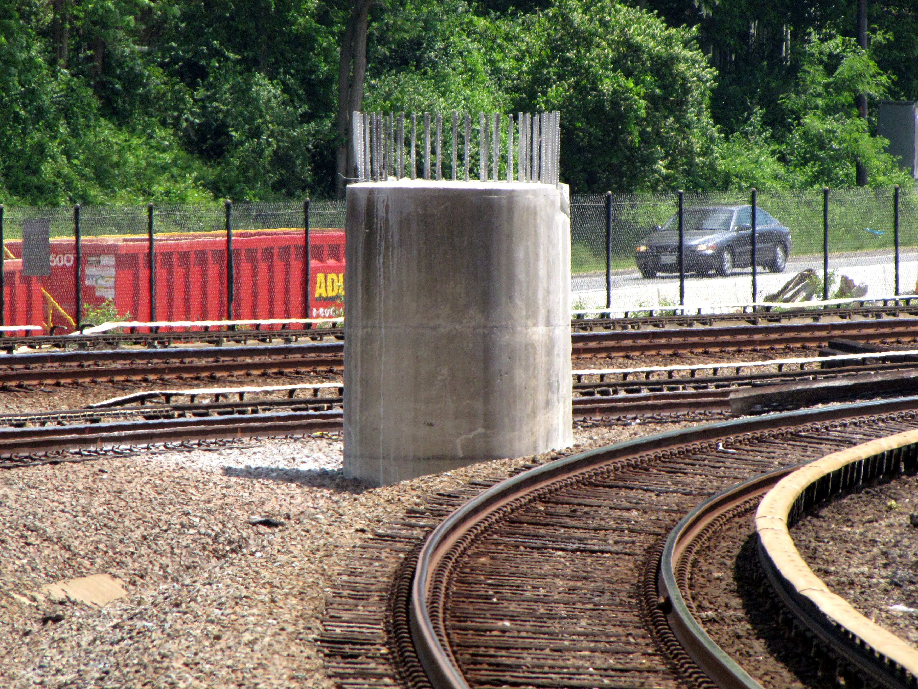 Unused concrete pier along WMATA K Route tracks for Silver Line bridge near West Falls Church station, seen here in 2010.